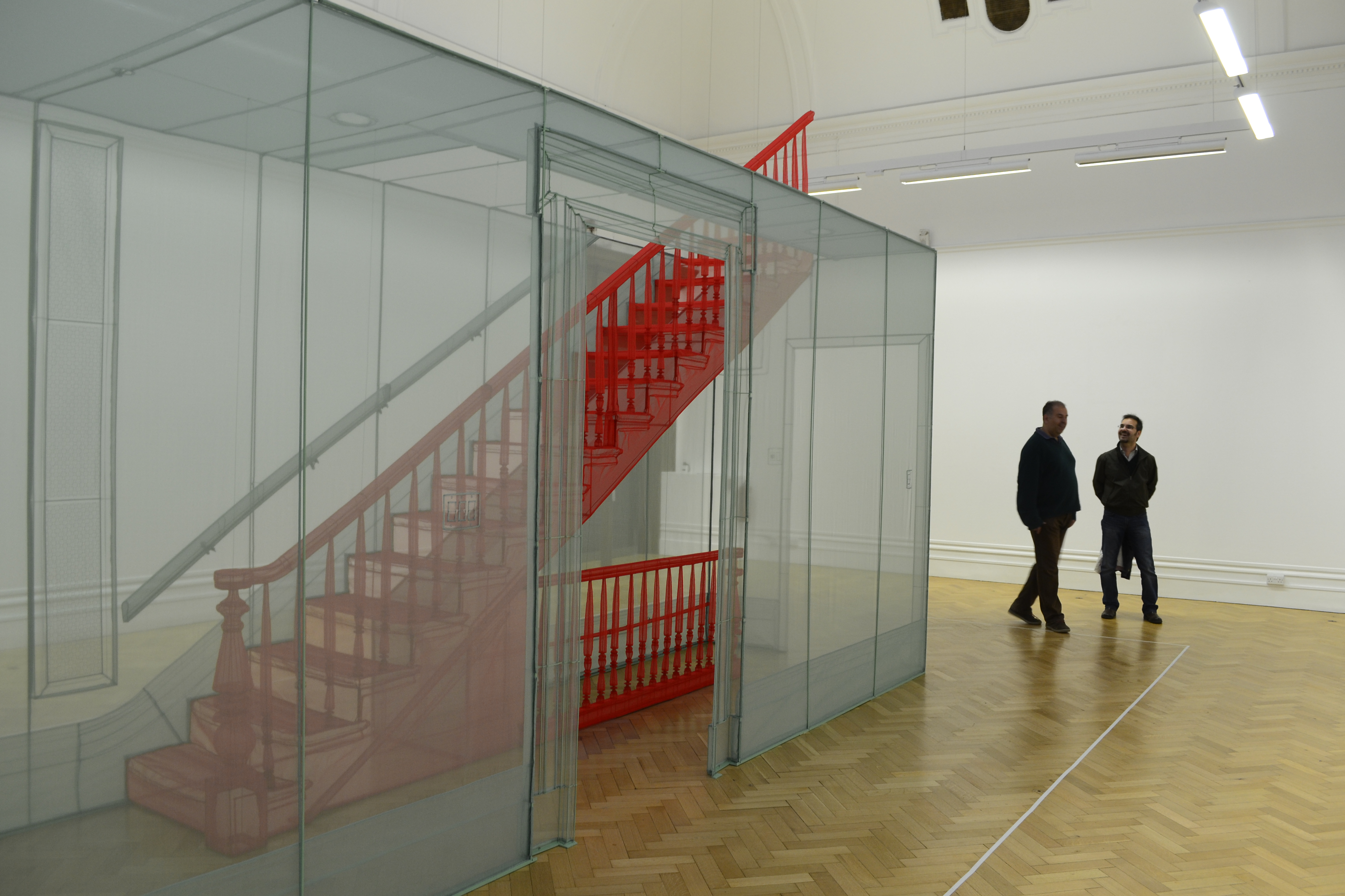 Do-Ho Suh's 'New York Apartment' at Bristol City Museum and Art Gallery